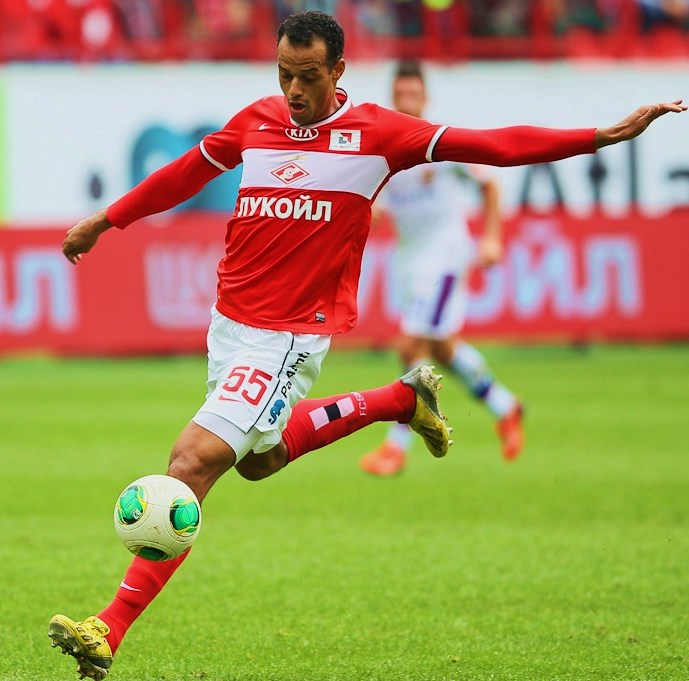 João Carlos Pinto Chaves